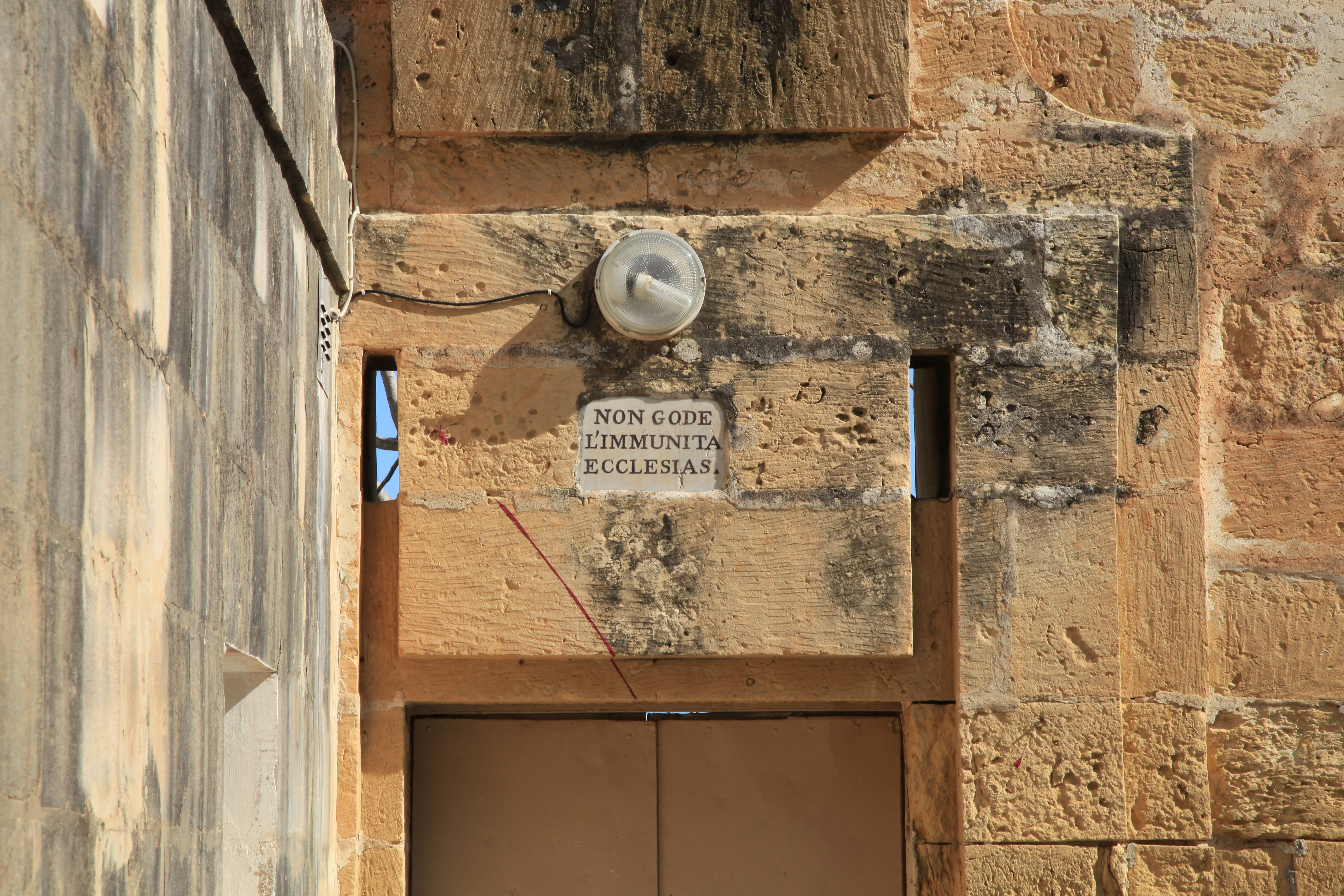 Kappella ta' San Ġorġ Martri, Triq Alfonso Maria Galea in Birżebbuġa